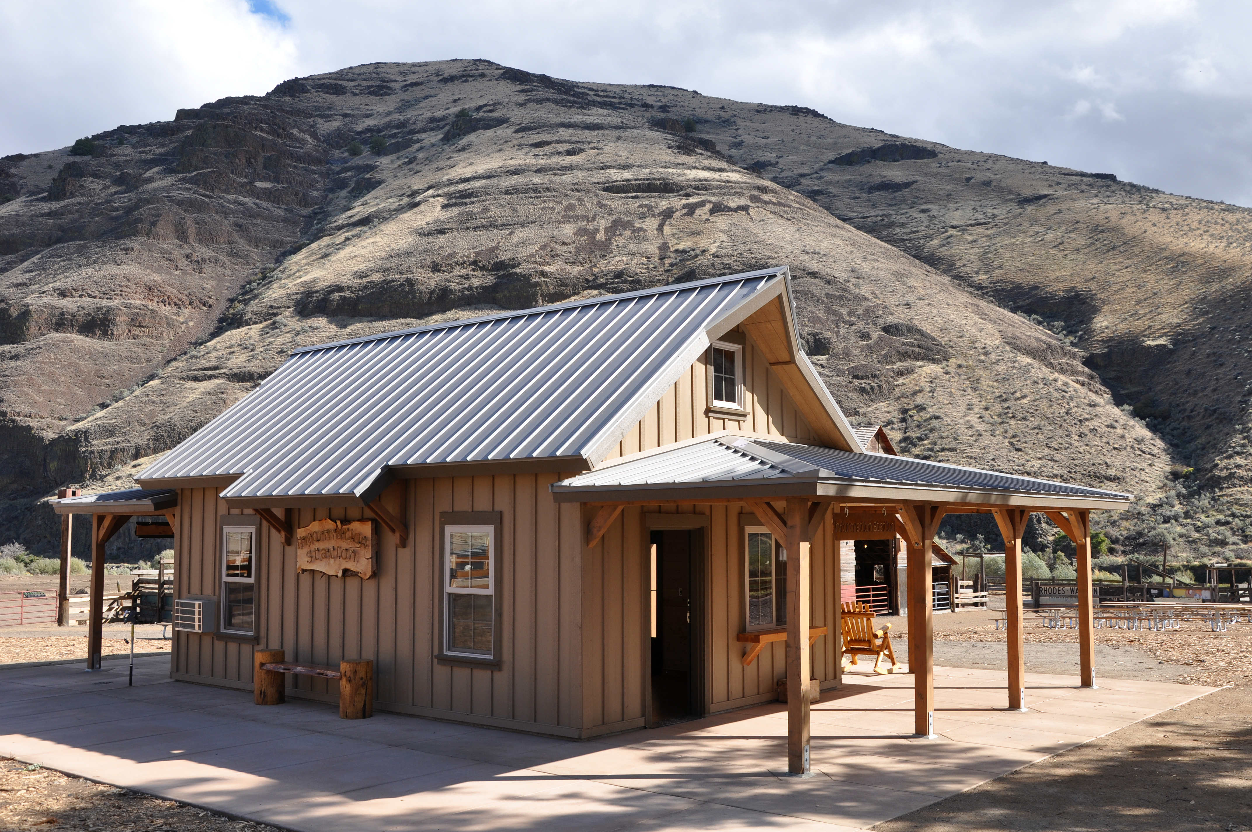 Information station at Cottonwood Canyon State Park, along the lower John Day River in the U.S. state of Oregon.